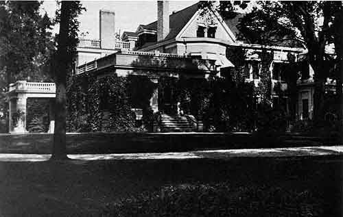 Kilmorie, Winnipeg. Home of Sir Augustus Meredith Nanton